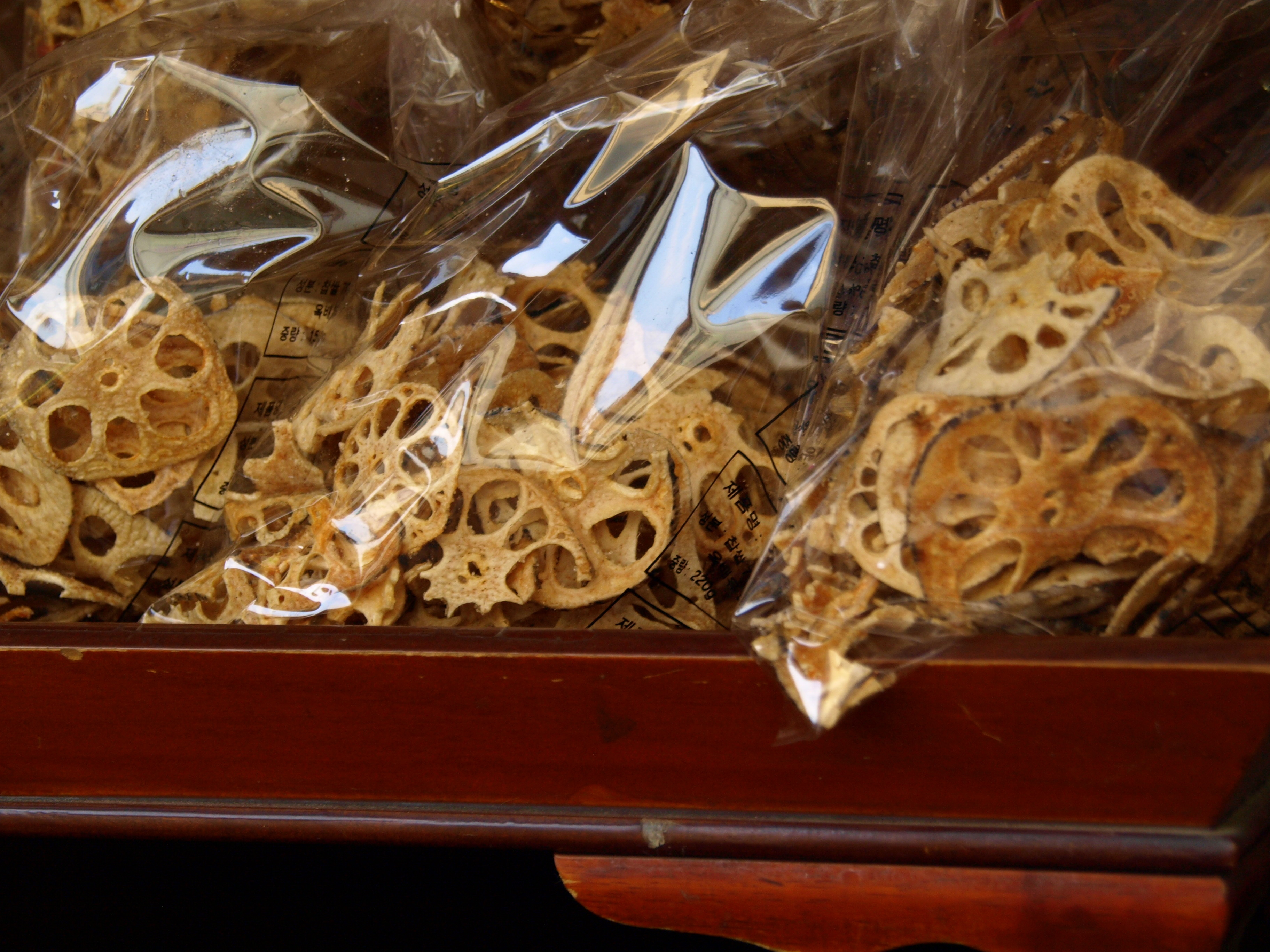 Yeongeun bugak, fried slices of lotus root that have been coated with glutinous rice paste being sold at Insadong street, Seoul, South Korea